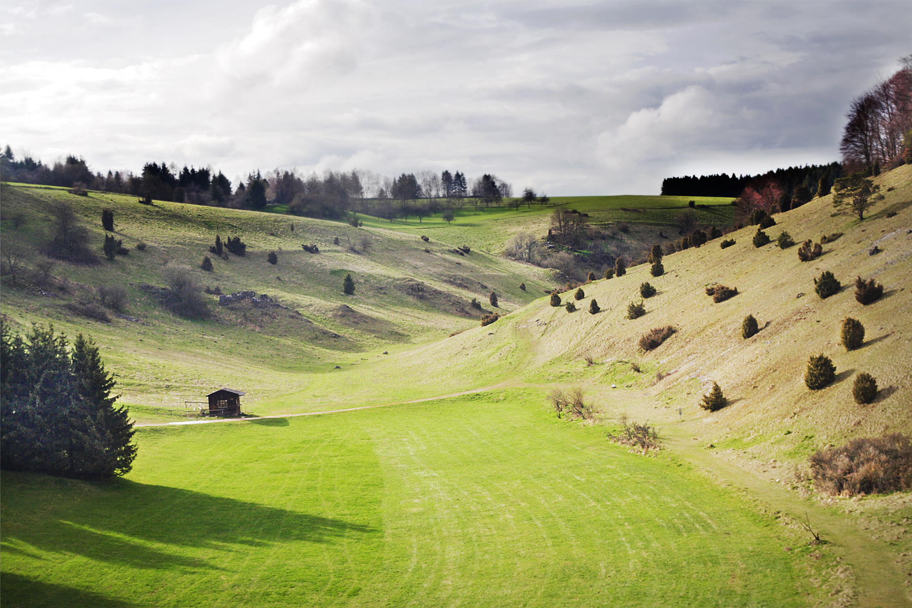 Mauertal, a dry valley and a tributary oft he dry valley “Stubental”. This Stubental touches the Steinheim crater on the south. The slopes of the Mauertal are a typical juniper heath.